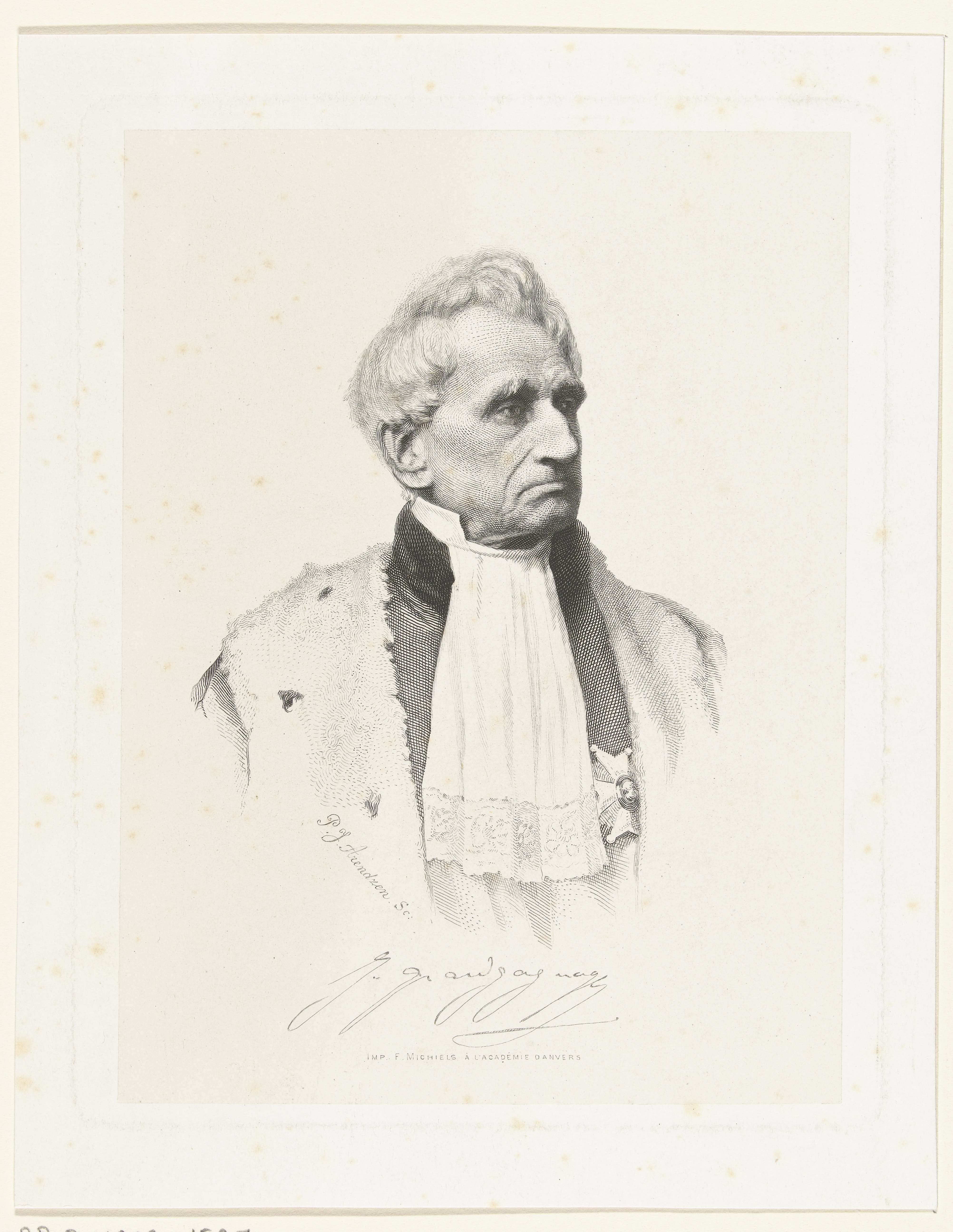 Joseph Grandgagnage, Belgian writer and jurist, portrait by the Dutch engraver, draftsman and portrait painter Petrus Johannes Arendzen ca. 1856 - ca. 1877